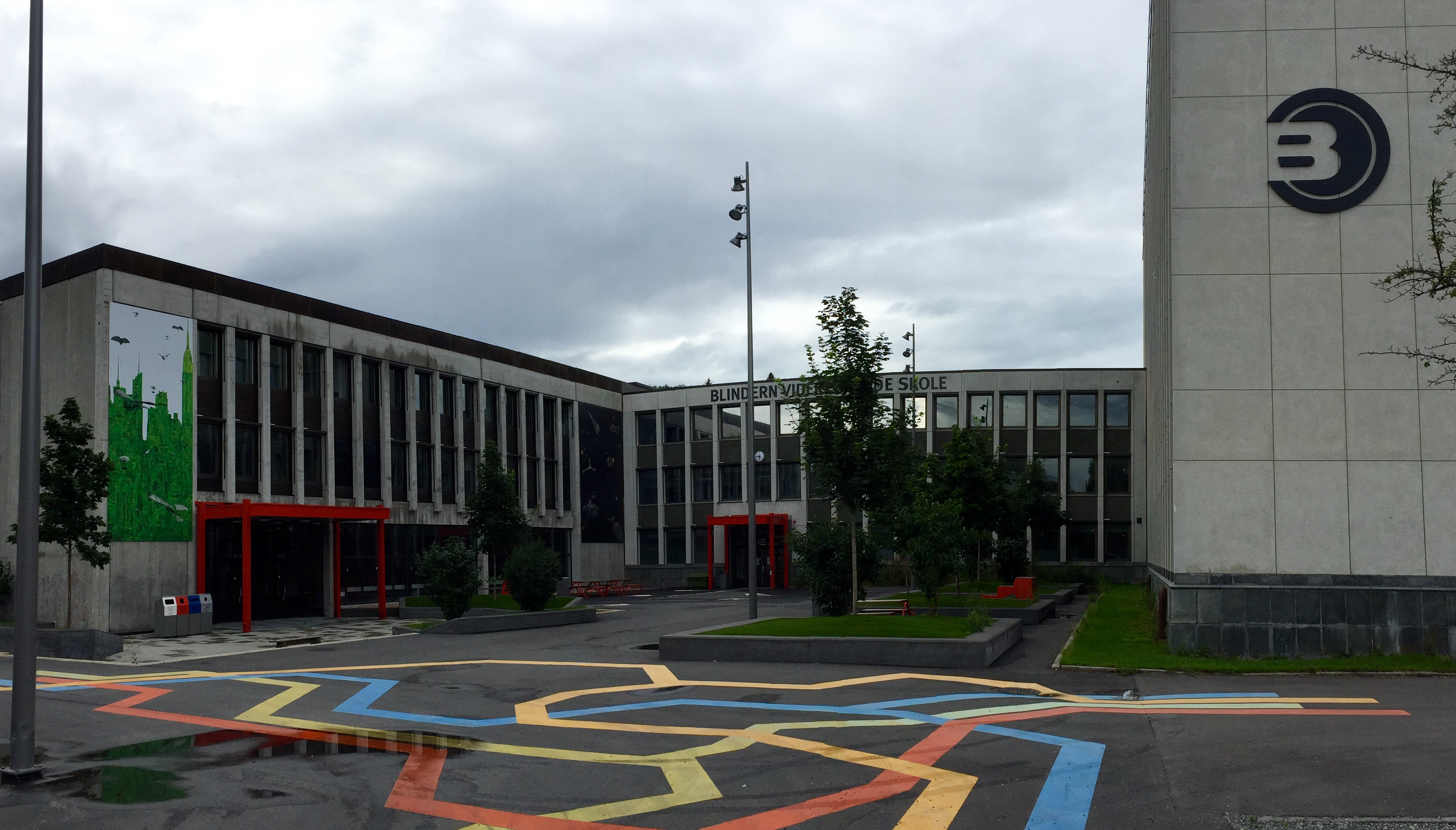 Blinderen Upper Secondary School in Oslo